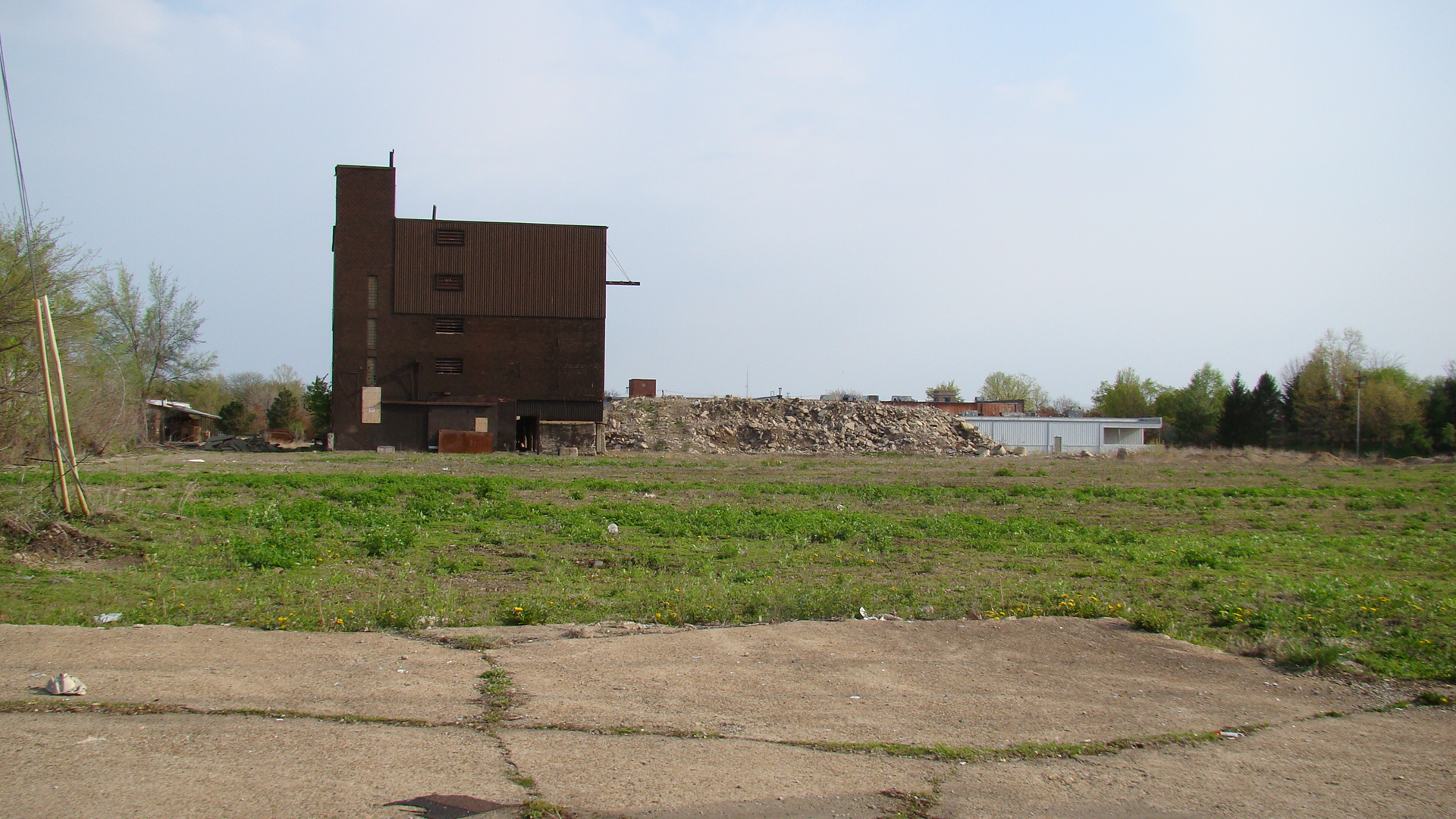 local brownfield site